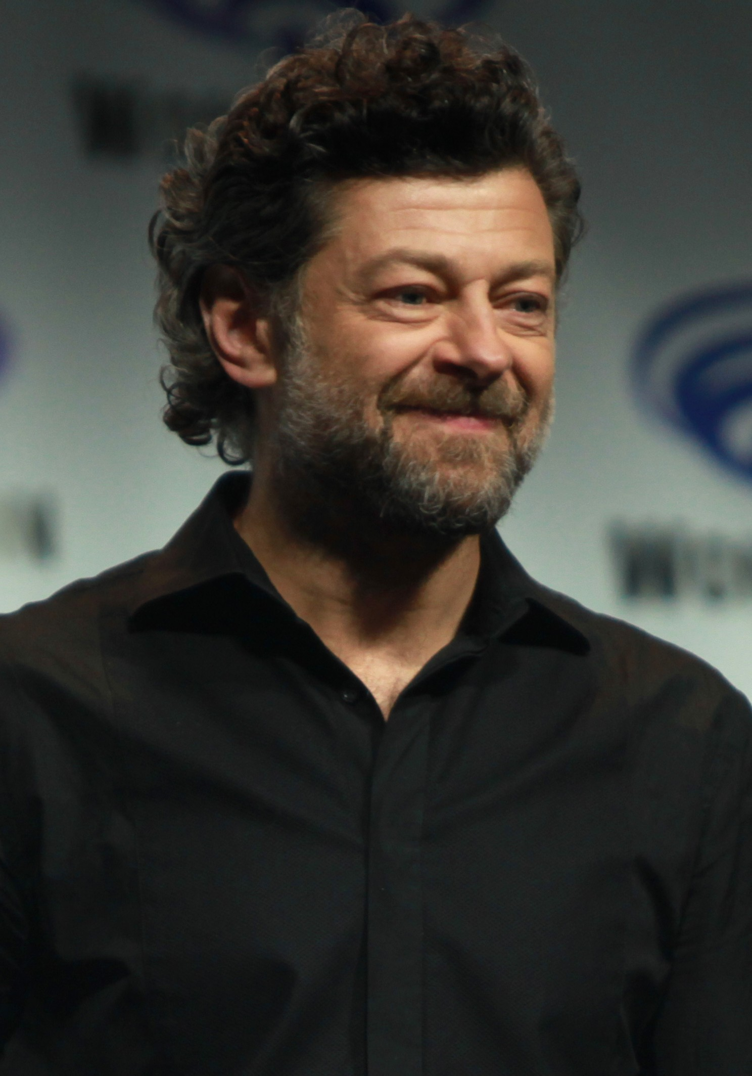 Andy Serkis speaking at the 2014 WonderCon, for "Dawn of the Planet of the Apes", at the Anaheim Convention Center in Anaheim, California. Photo by Gage Skidmore, taken on April 19, 2014